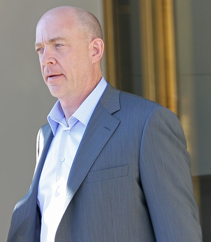 J. K. Simmons at the 2007 Toronto International Film Festival